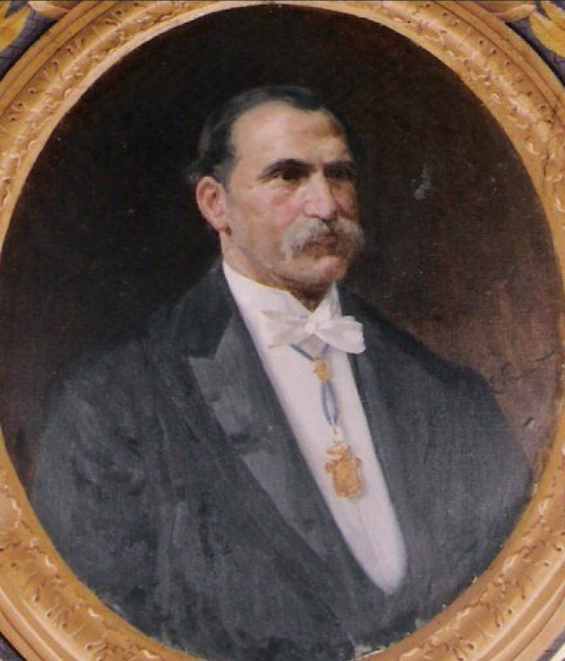 Portrait of Francisco Javier Simonet, uncle of the artist.